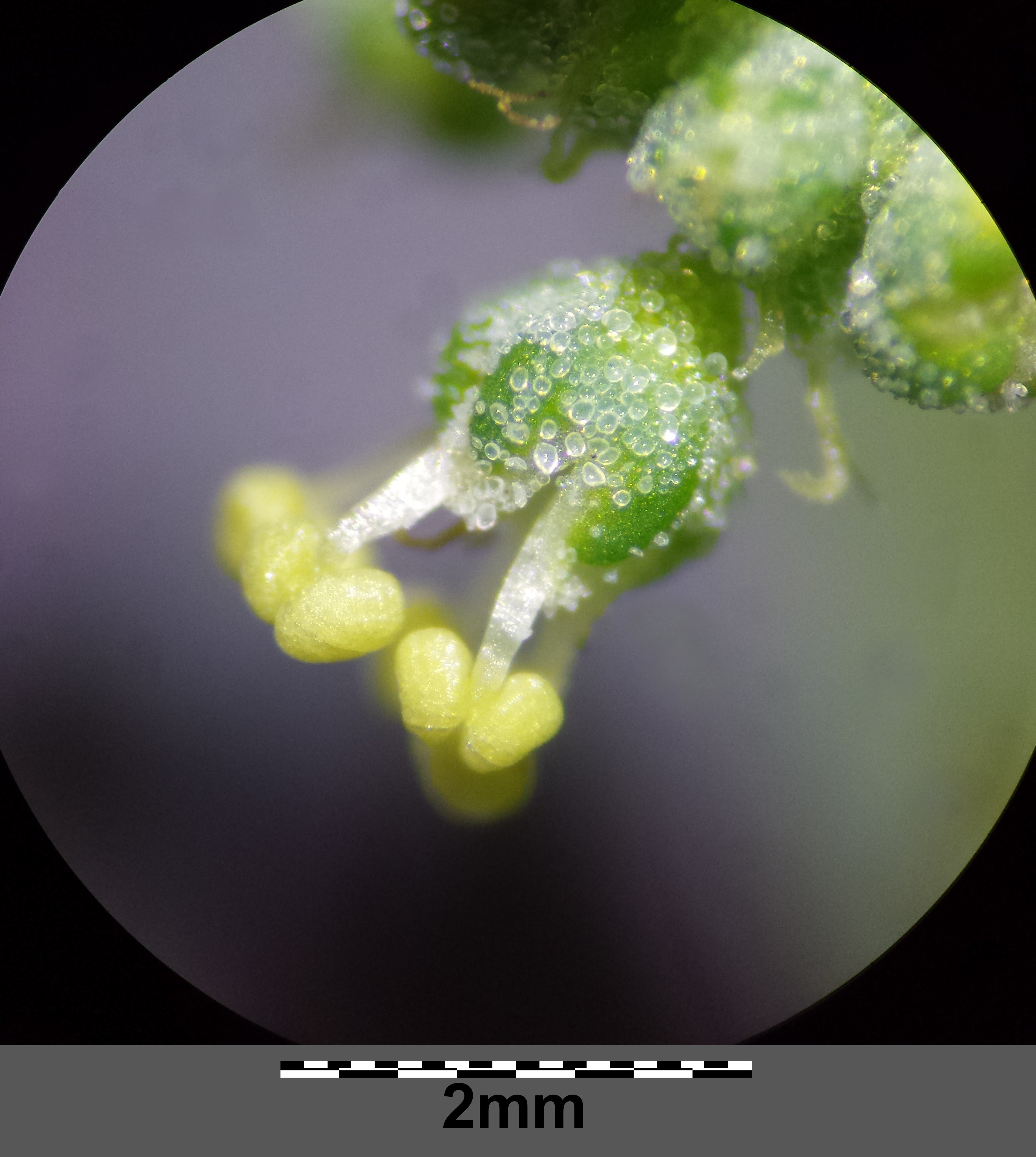 Flower Taxonym: Chenopodium ficifolium subsp. ficifolium ss Fischer et al. EfÖLS 2008 ISBN 978-3-85474-187-9 Location: Nordmanngasse, Donaufeld, Vienna-Floridsdorf - ca. 160 m a.s.l. Habitat: humid field